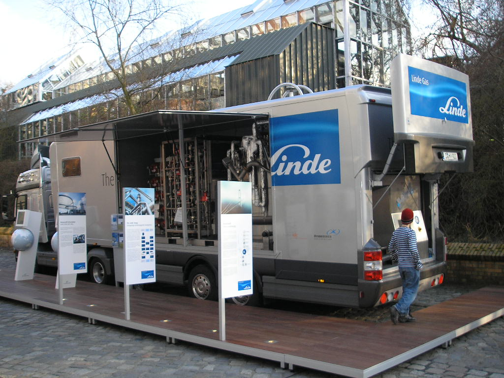 traiLH2 mobile hydrogen tanking station, exhibited at the German Museum of Technology in Berlin.